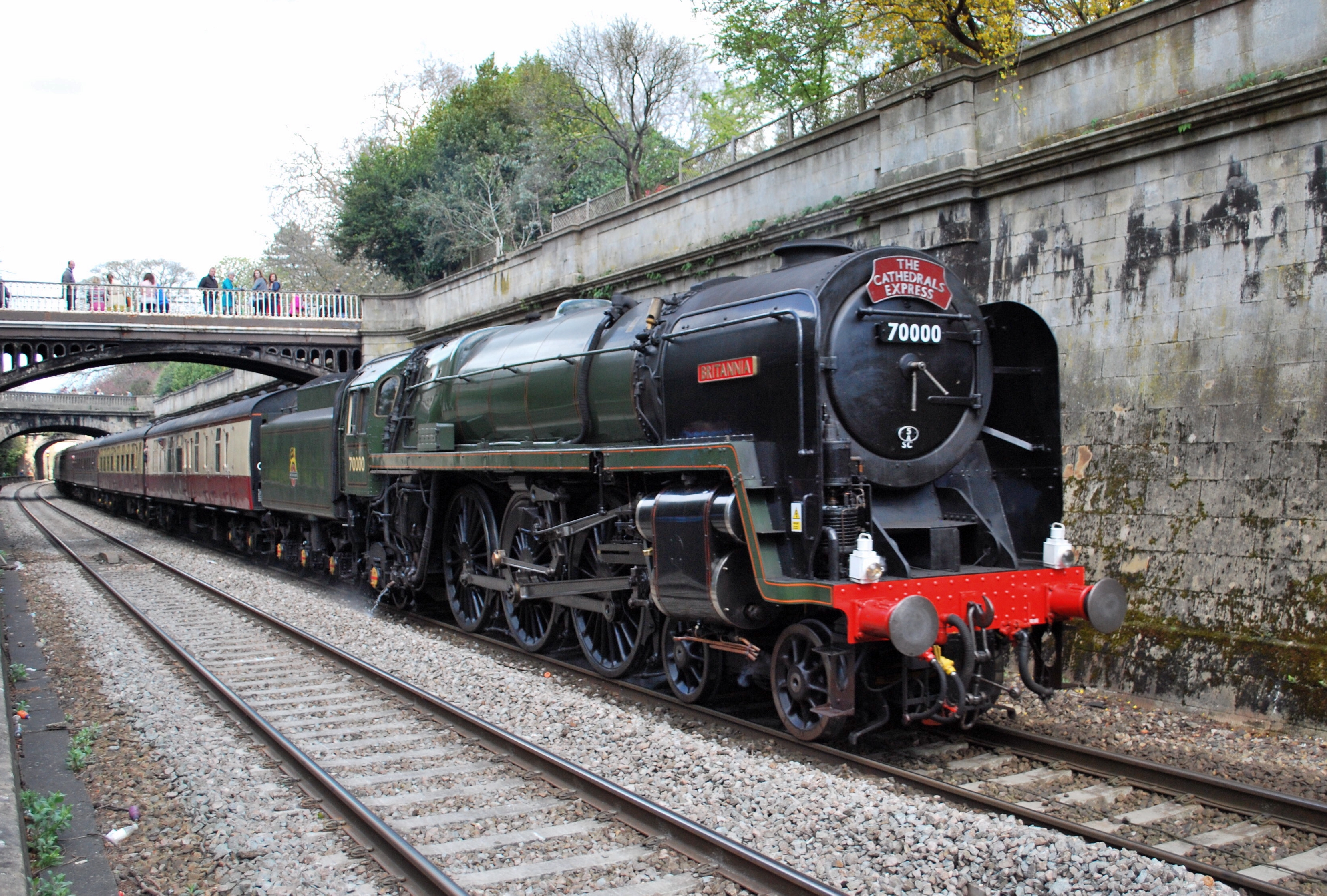 B.R. Standard Class "7MT" or "Britannia" 4-6-2 No.70000 "Britannia" in B.R. lined green and early (1949) BR emblem on the Victoria-Bath Spa-Bristol Temple Meads "Catherals Express" approaching Bath, 04/12.